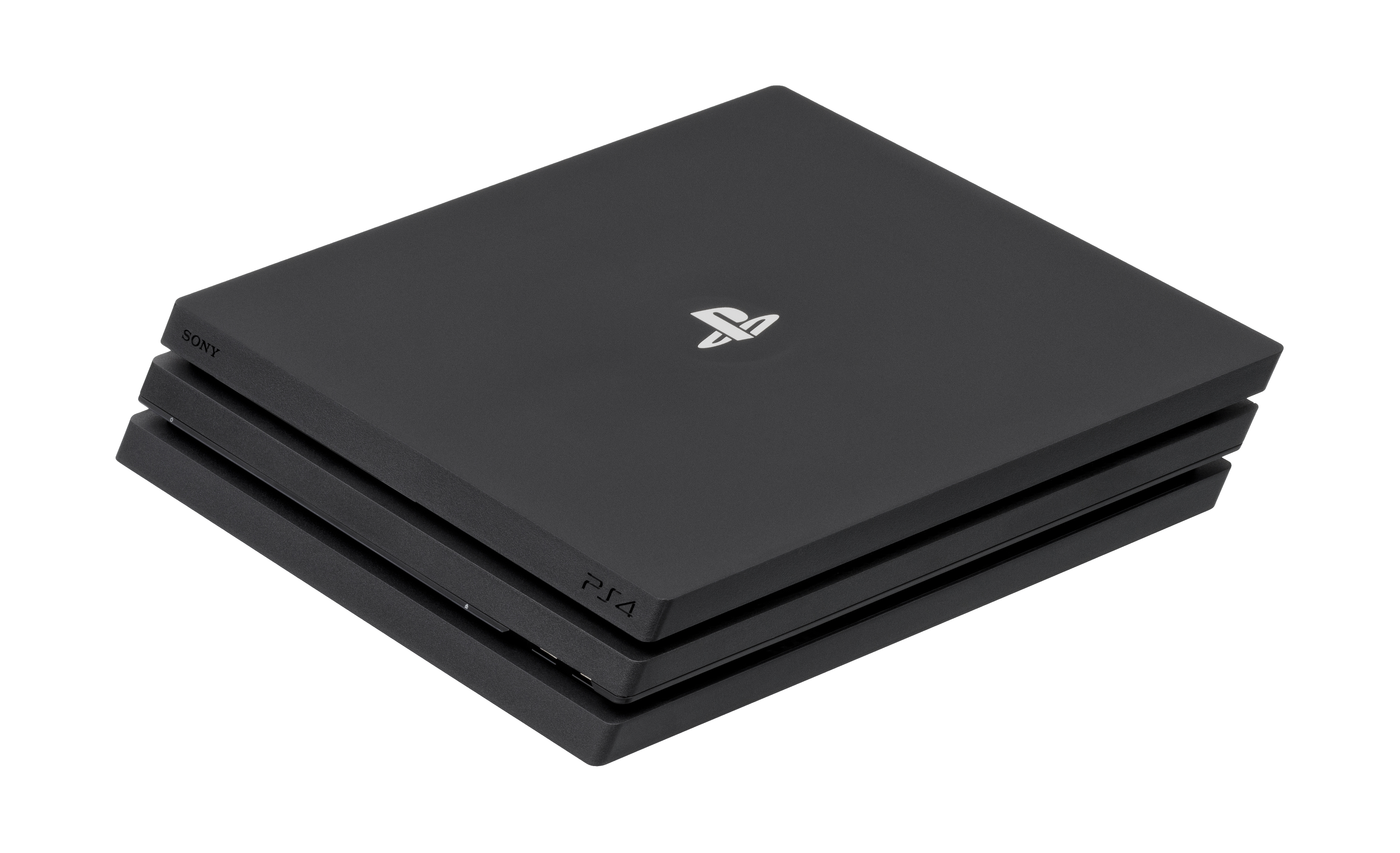 The PlayStation 4 Pro video game console. Produced by Sony and launched worldwide in November 2016, the Pro is an enhanced model of the original PlayStation 4 that offers extra capabilities through an upgraded GPU, faster RAM and a CPU with a higher clock speed.